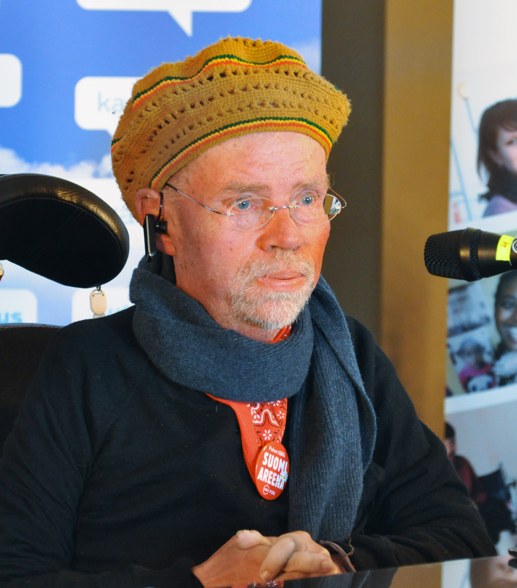 Finnish disability activist Kalle Könkkölä at SuomiAreena in Pori, 2015.